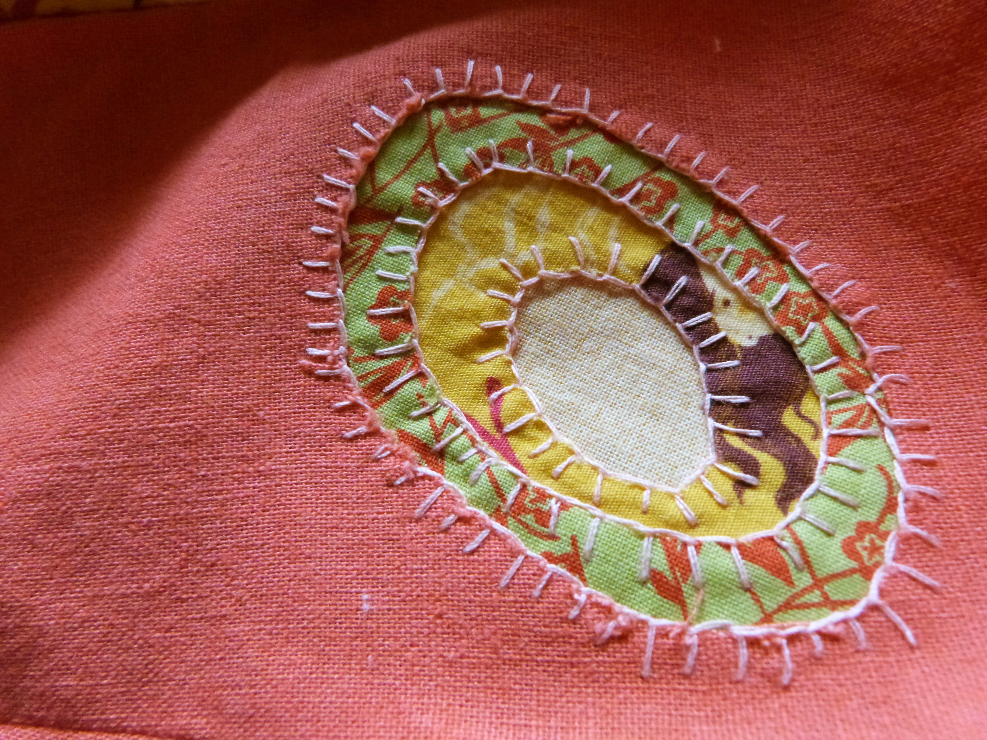 Reverse applique on a linen dress